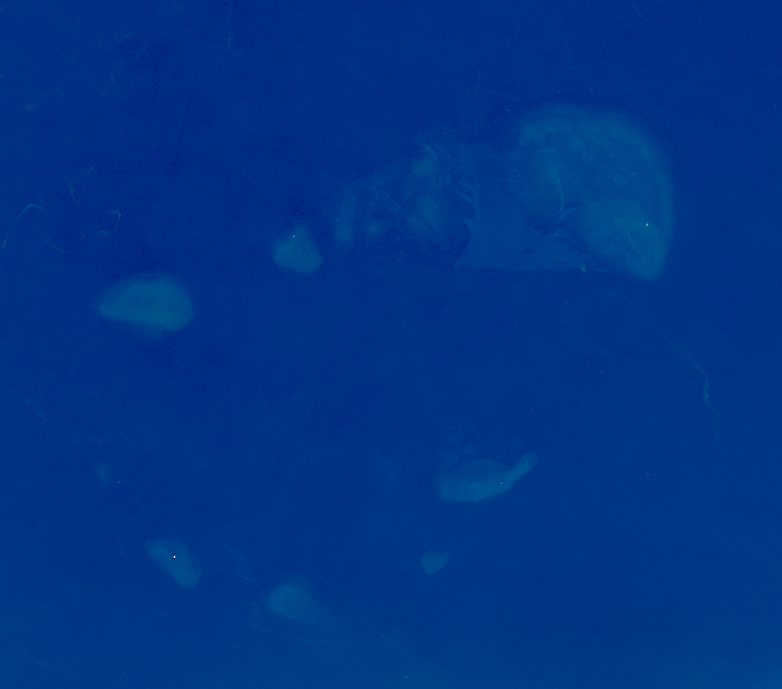 Prince of Wales Bank is an atoll in the South China Sea.